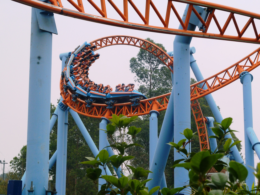 10 Inversion Roller Coaster, Chime-Long Paradise, China